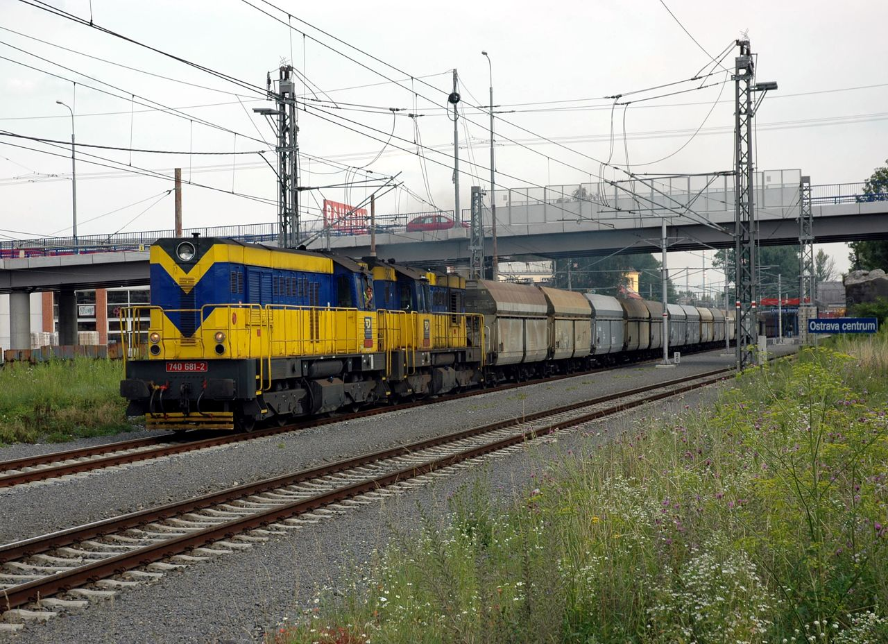 Locomotives 740.681+682 of OKD, Doprava operatot with set of wagon class Fals PKP Cargo, at Ostrava-Stodolní stop, Czech Republic